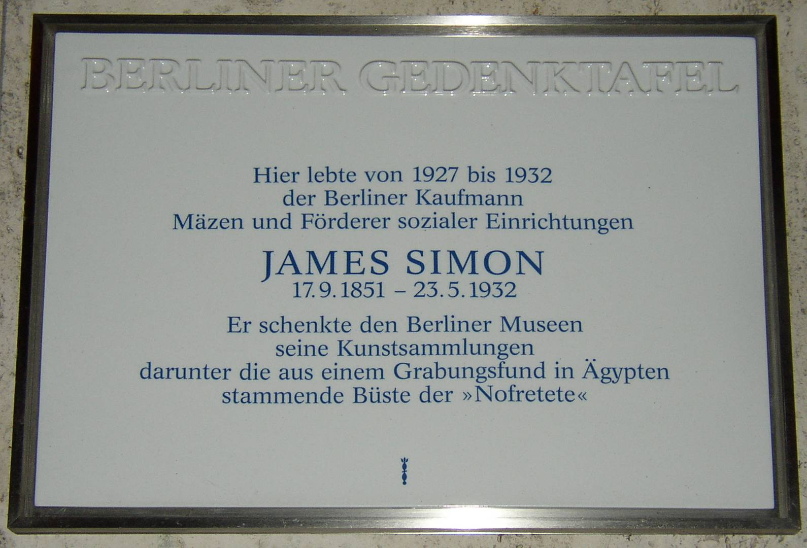 Berlin memorial plaque for James Simon in Berlin-Wilmersdorf, Germany